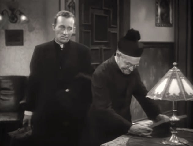 Bing Crosby & Barry Fitzgerald in Going My Way - trailer (cropped screenshot)